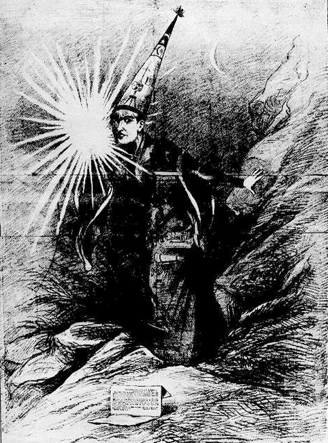 "The Wizard's Search" - illustration, from the front page of the 9 July 1879 New York Daily Graphic